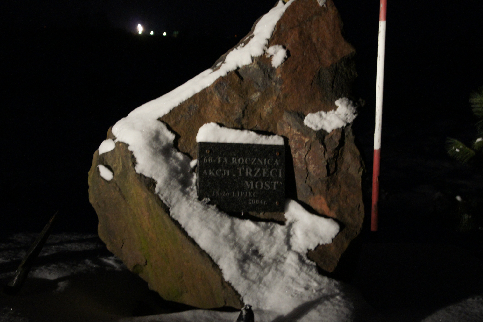 Memorial stone for Operation Most III in Zabawa, Poland